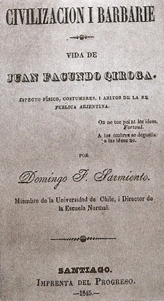 Book cover to "Civilización i Barbarie - Vida de Juan Facundo Quiroga", written by Argentine politician and teacher Domingo F. Sarmiento. Published by Imprenta del Progreso, Santiago (Chile).